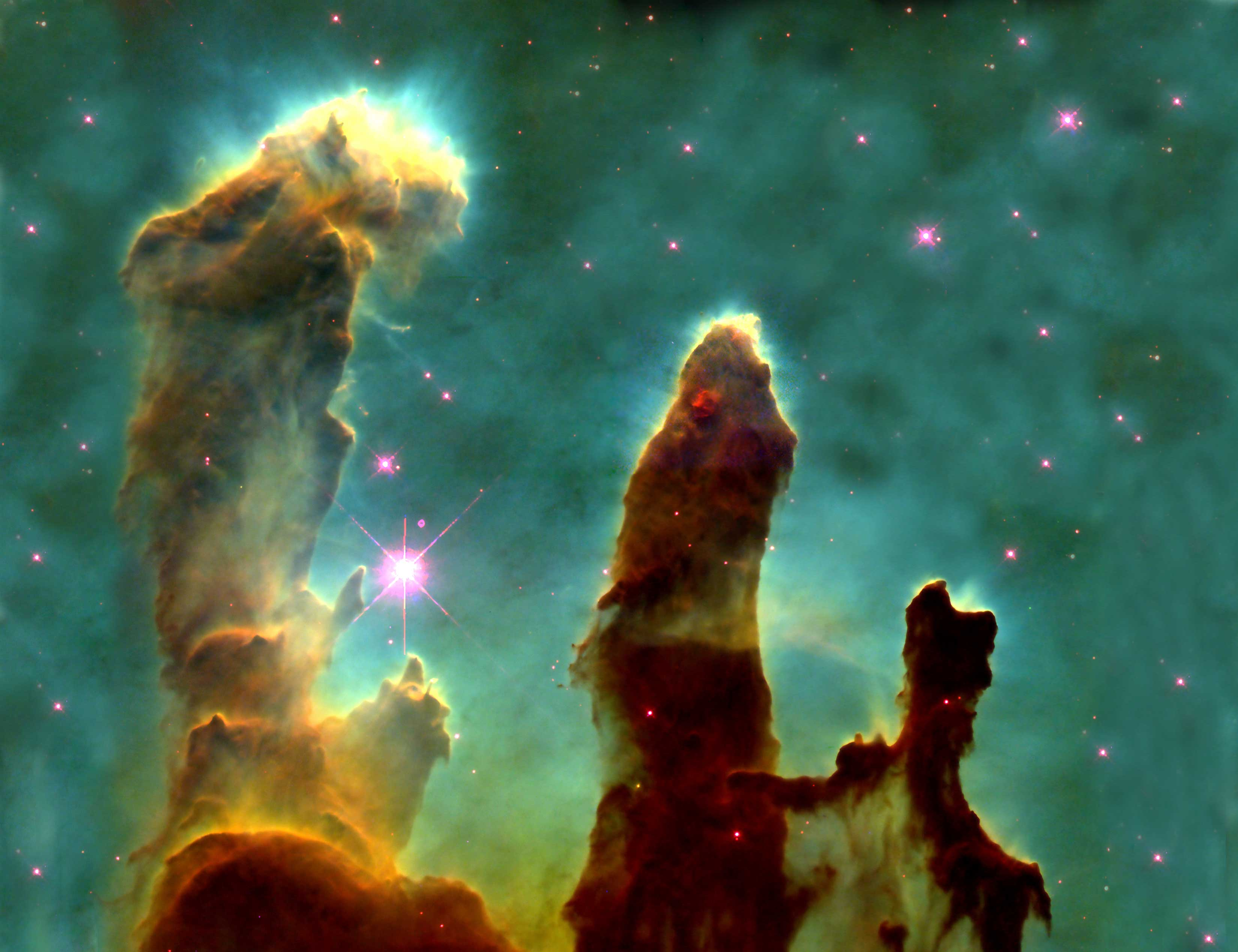 Star forming pillars in the Eagle Nebula